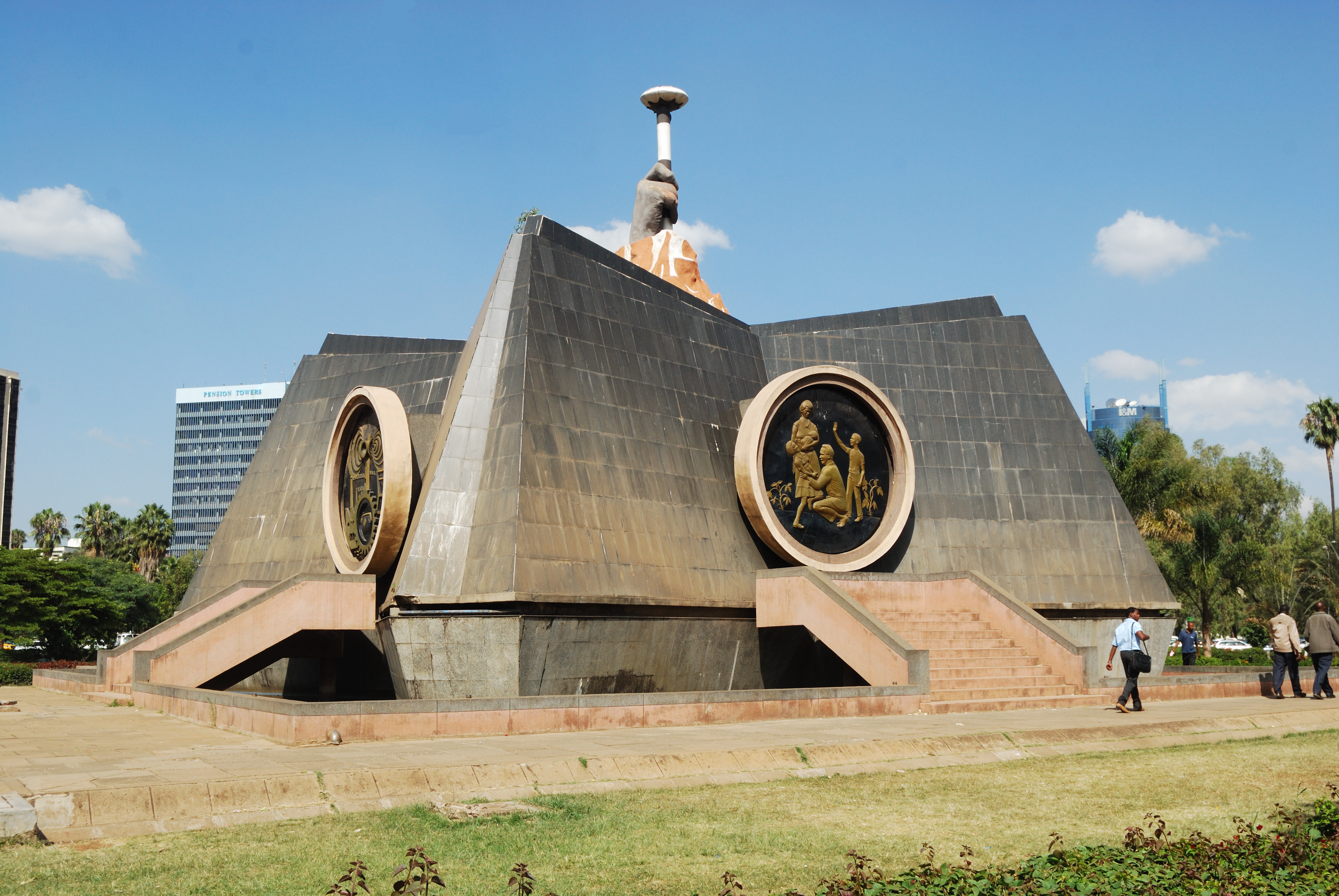 Nyayo Memorial, Central Park, Nairobi, Kenya